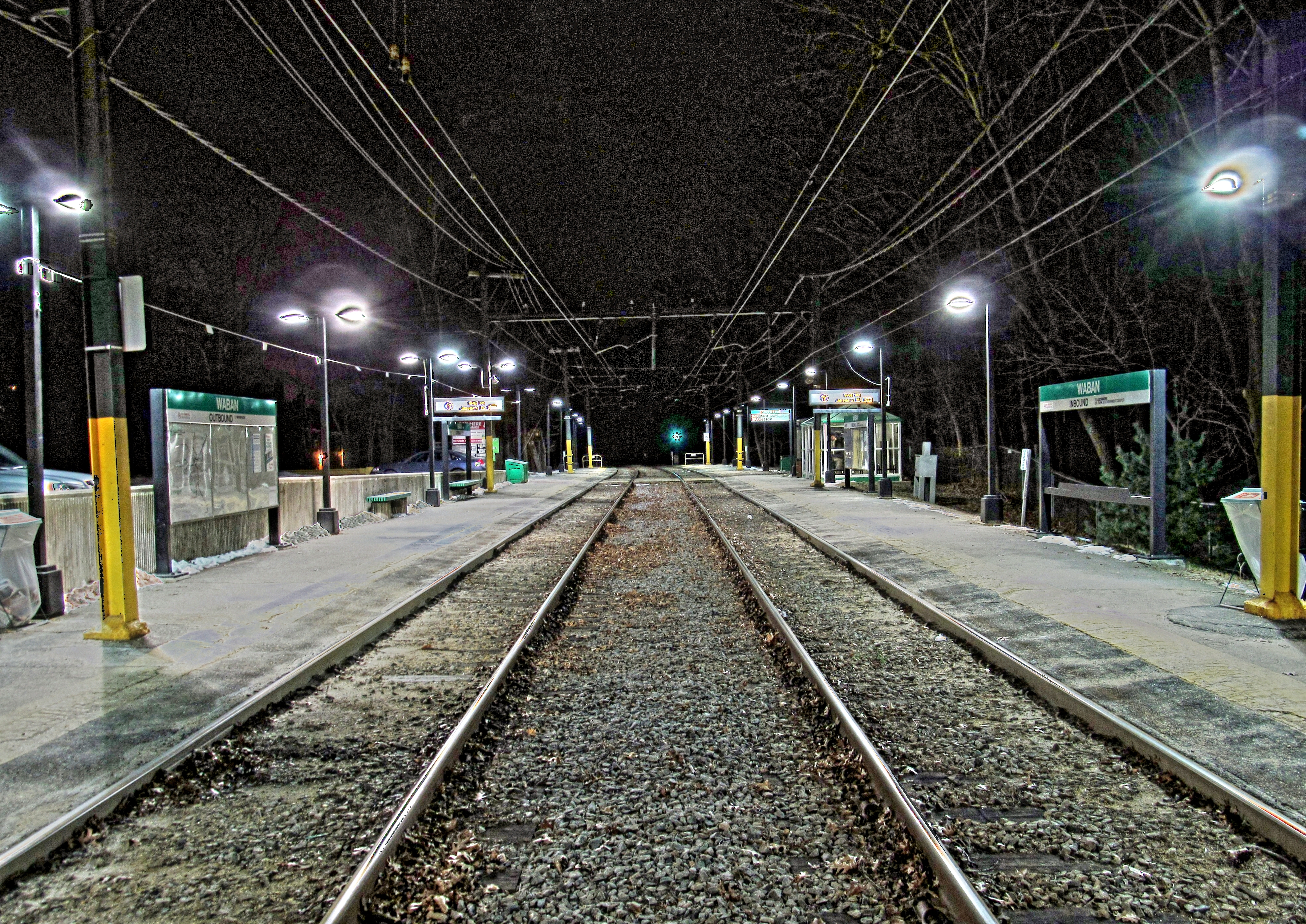 Waban station at night, facing inbound. Composite stack of two HDR images (each composed of 1/3, 1/30, and 1/300 second exposures) plus the 1/3 second exposure. HDR tonemapping was done in Luminance HDR, with the final work in GIMP.